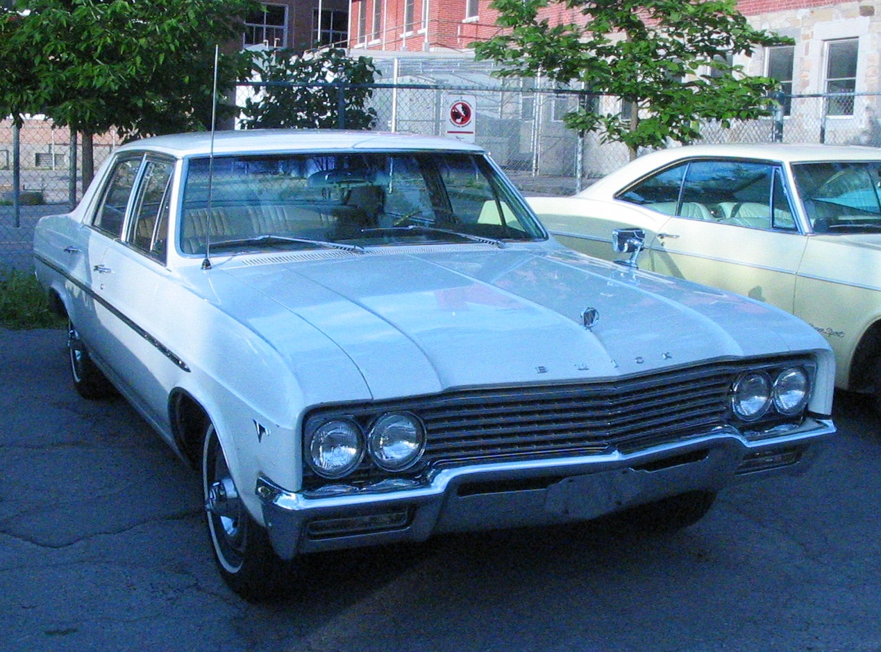 1965 Buick Skylark photographed in Laval, Quebec, Canada at the Auto classique Ste-Rose.